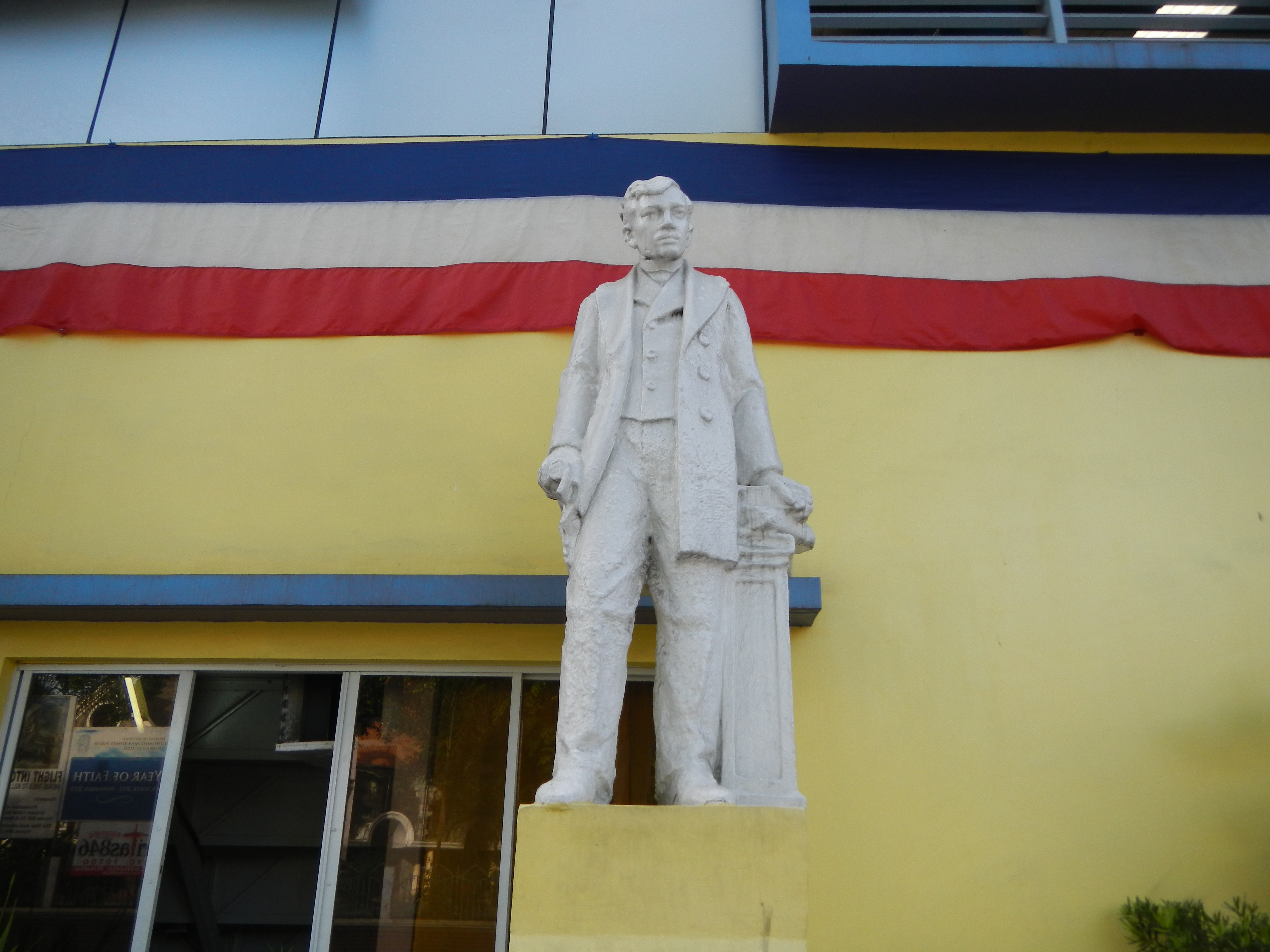 Licerio Gerónimo [1] (August 27, 1855–January 16, 1924) was a general of the Philippine Revolutionary Forces under Emilio Aguinaldo. He is remembered in Philippine-American War annals as the opposing general to Major General Henry Ware Lawton at the Battle of San Mateo (San Mateo, Rizal) on December 19, 1899, where Lawton lost his life along with 13 other Americans.